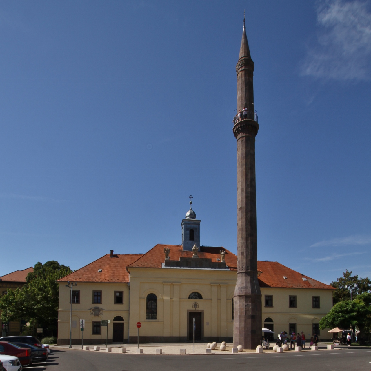 Ottoman minaret, Eger, Hungary, seen from east-northeast, with St Sebastian's church in the background